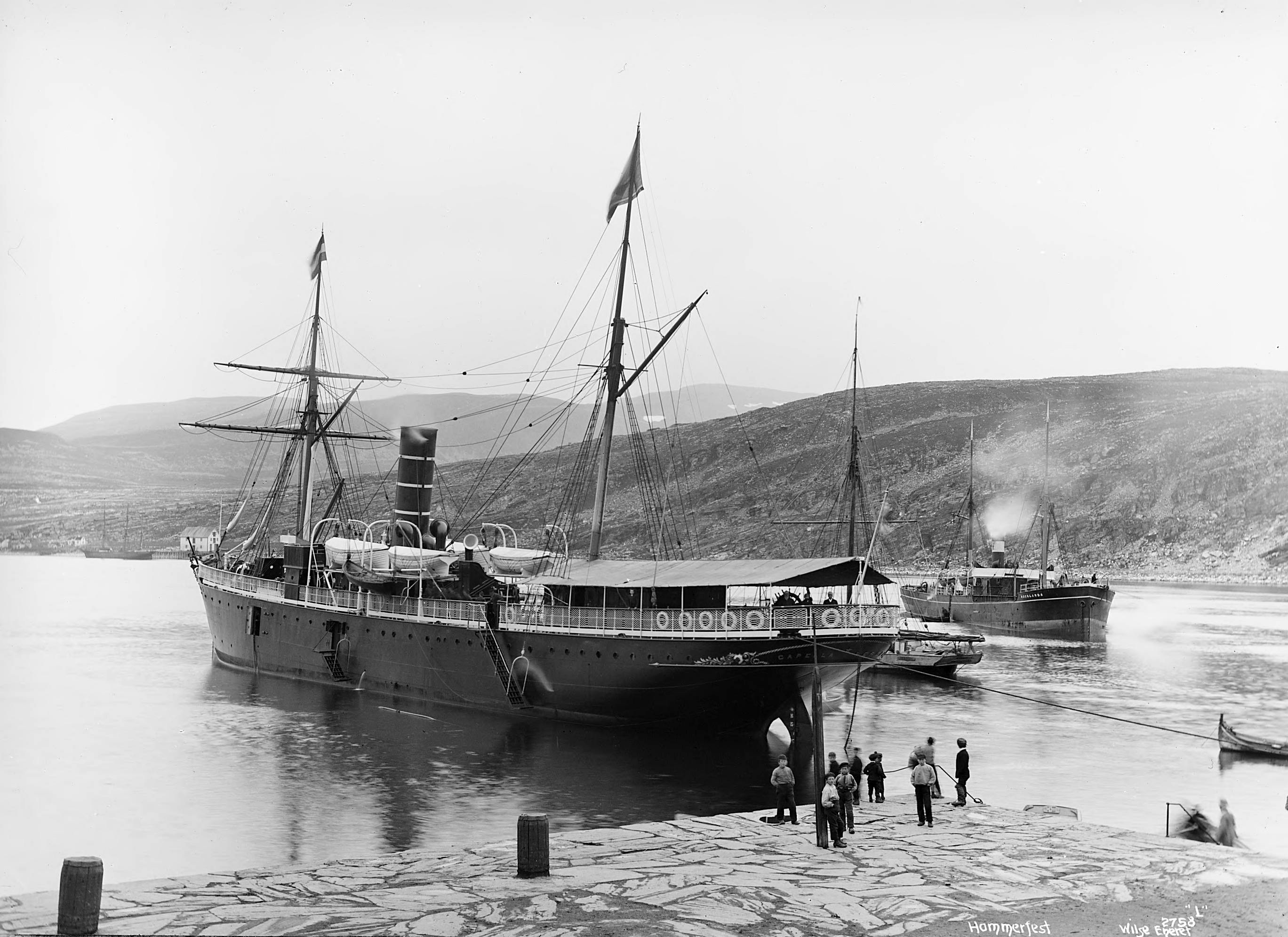 Norwegian passengership DS Capella in Hammerfest ca. 1890. This ship was employed in the Norwegian coastal express service (Hurtigruten) between 1898 and 1912